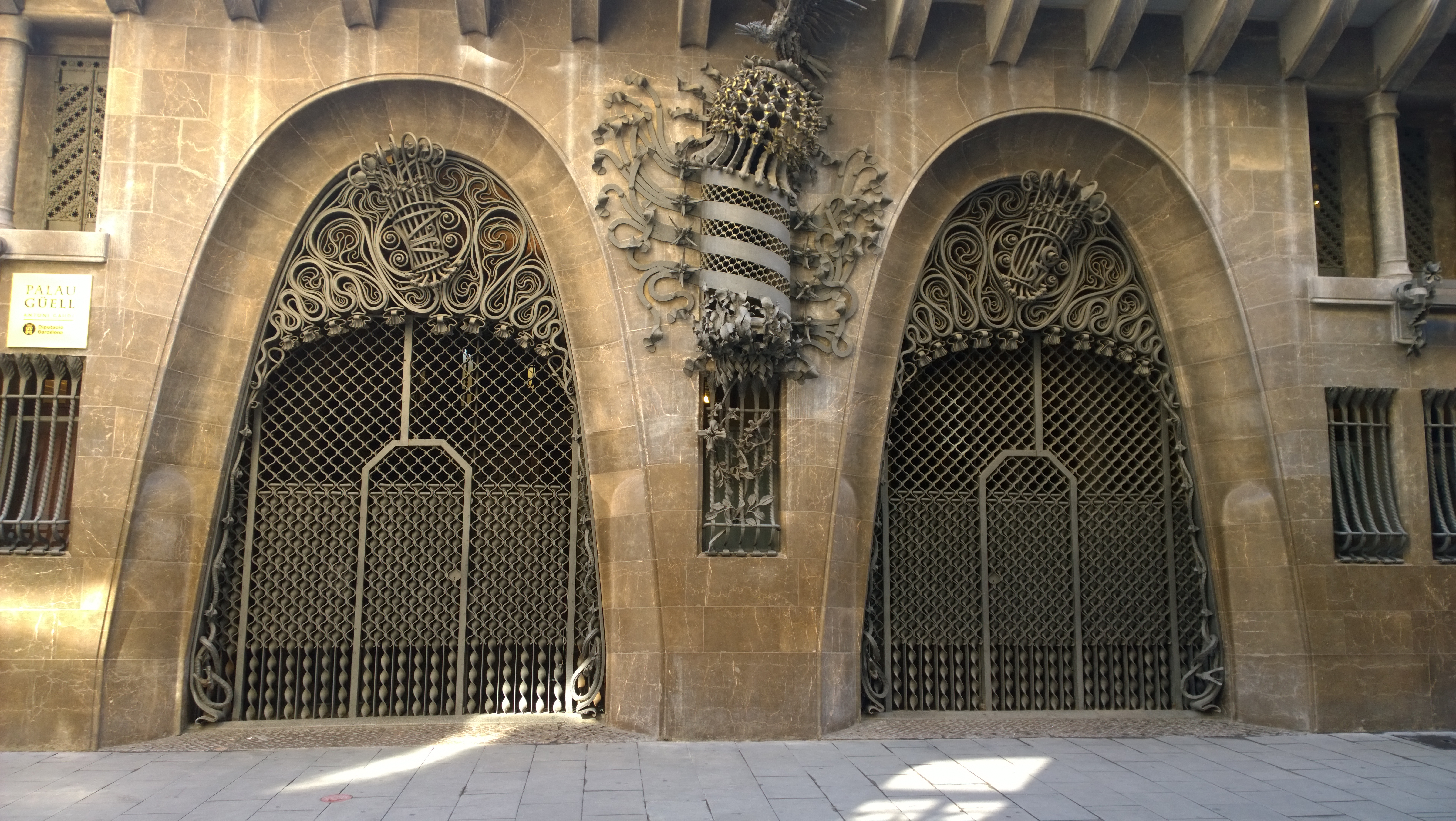 Gates of Palau Güell, 2014.